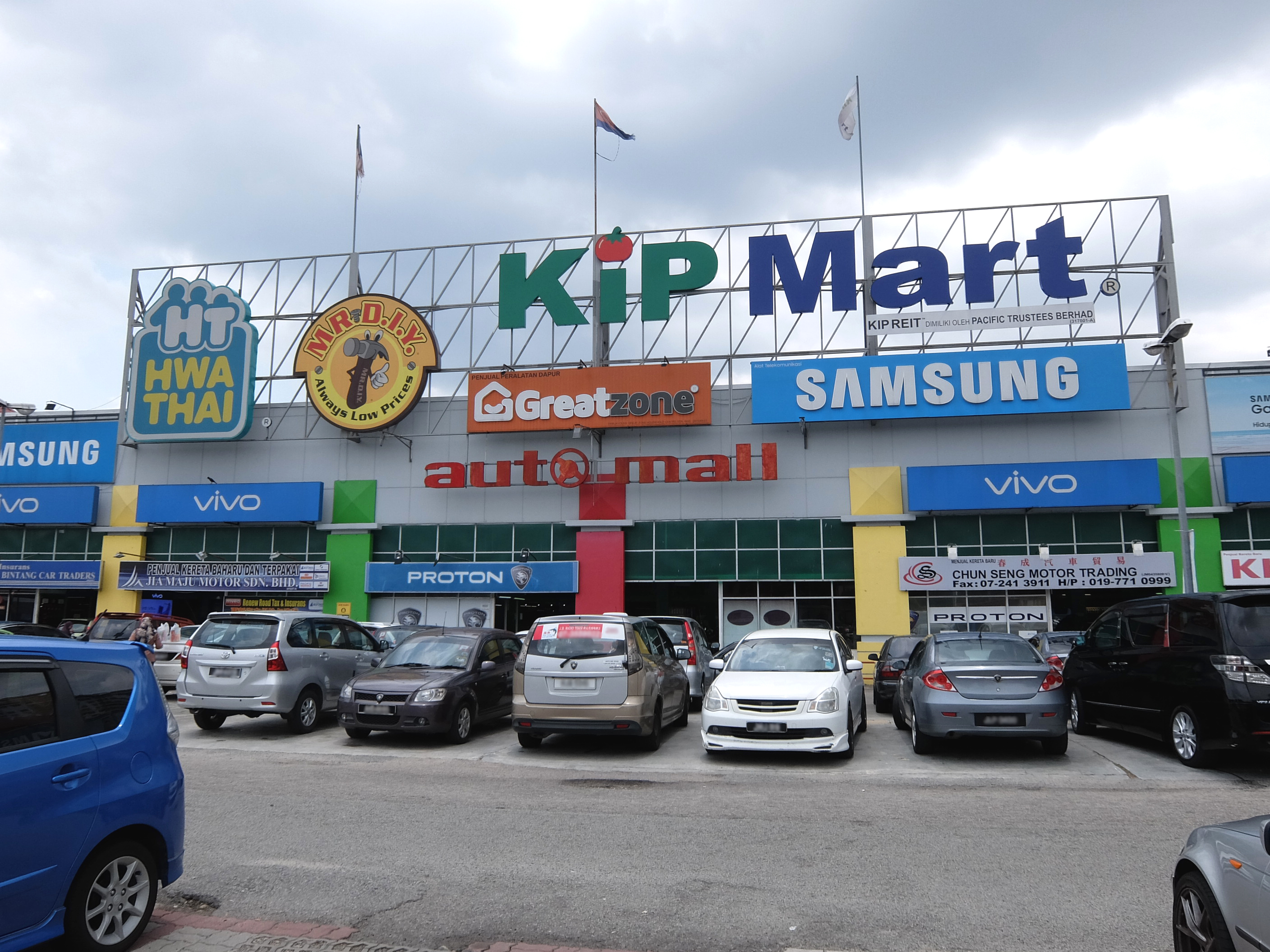 KiP Mart Tampoi, Tampoi, Johor Bahru, Johor, Malaysia